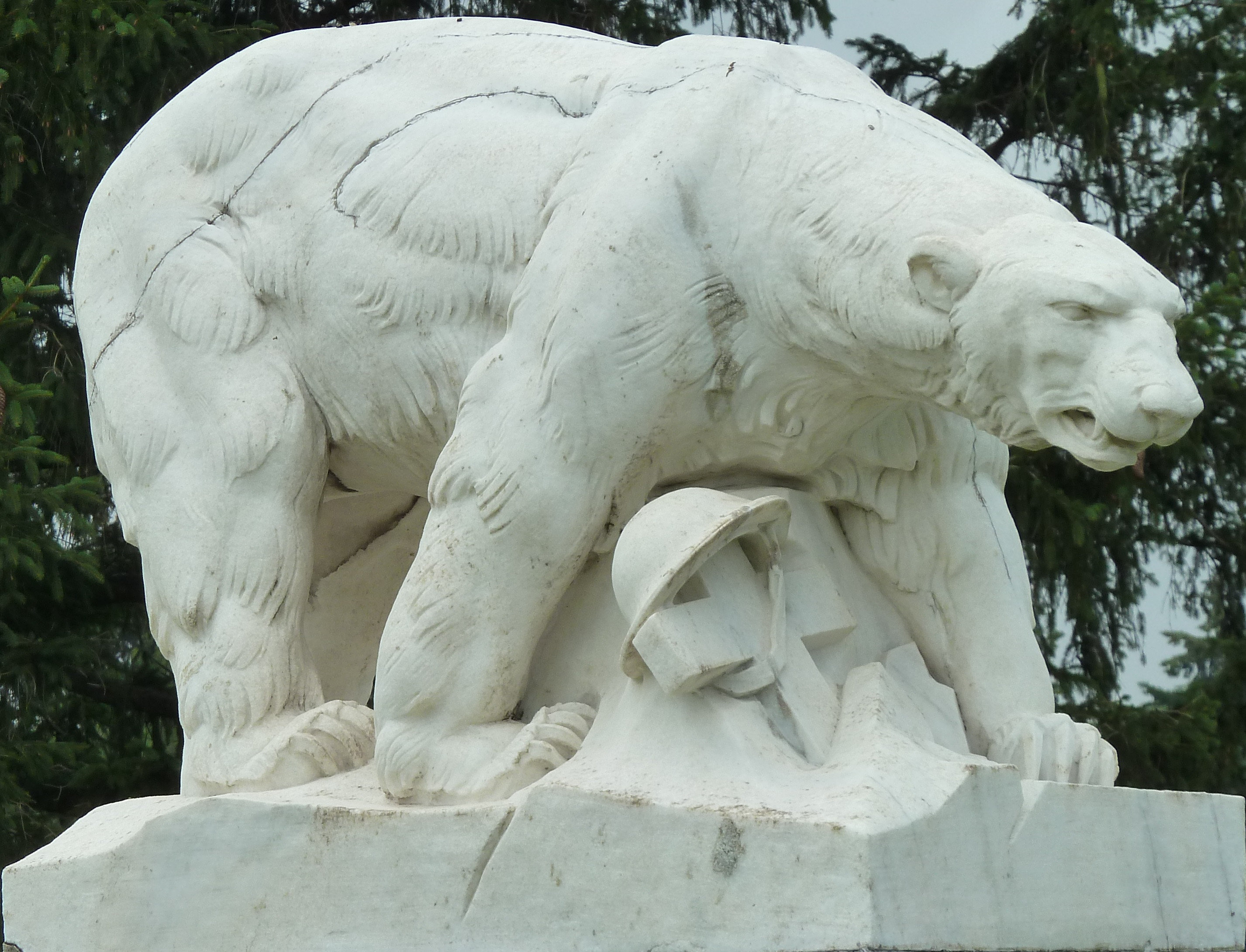 Polar Bear Monument in White Chapel Cemetery, Troy, Michigan, sculptor Leon Hermant.